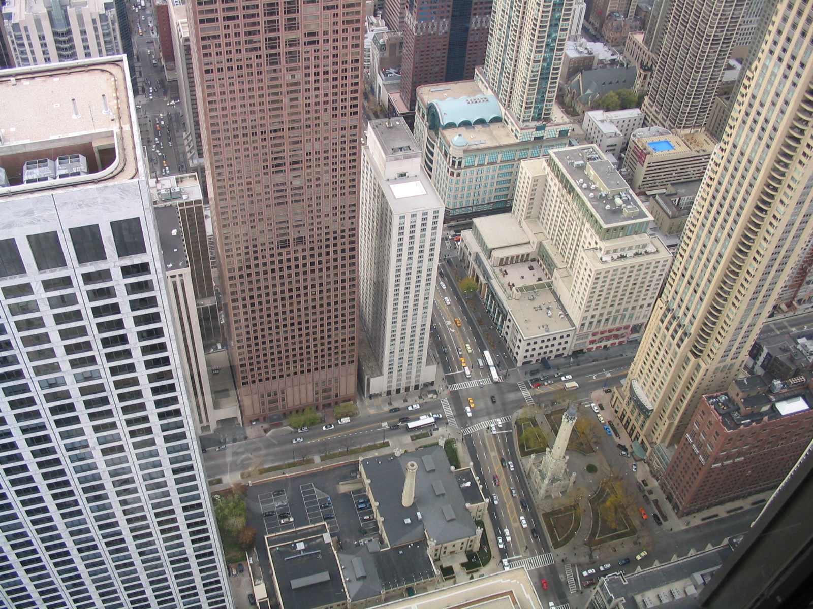 These are images of downtown Chicago, Illinois that I took in Nov '04, looking down on Michigan Avenue and the Water Tower.